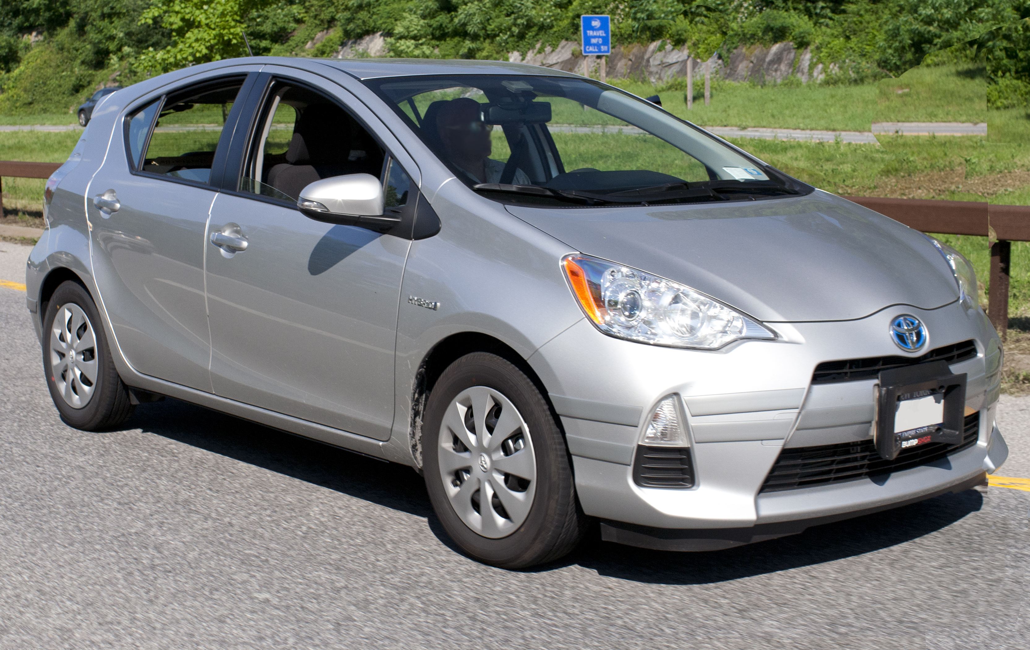 2012 Toyota Prius C